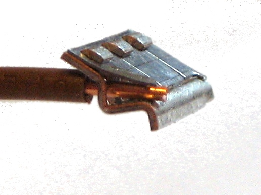 Spring Clamp. Used to connect several components together. The force of a spring is used to fix the elements by self-locking. As a rule, it is desirable that sharp edges of the spring bite under load at the clamping points.